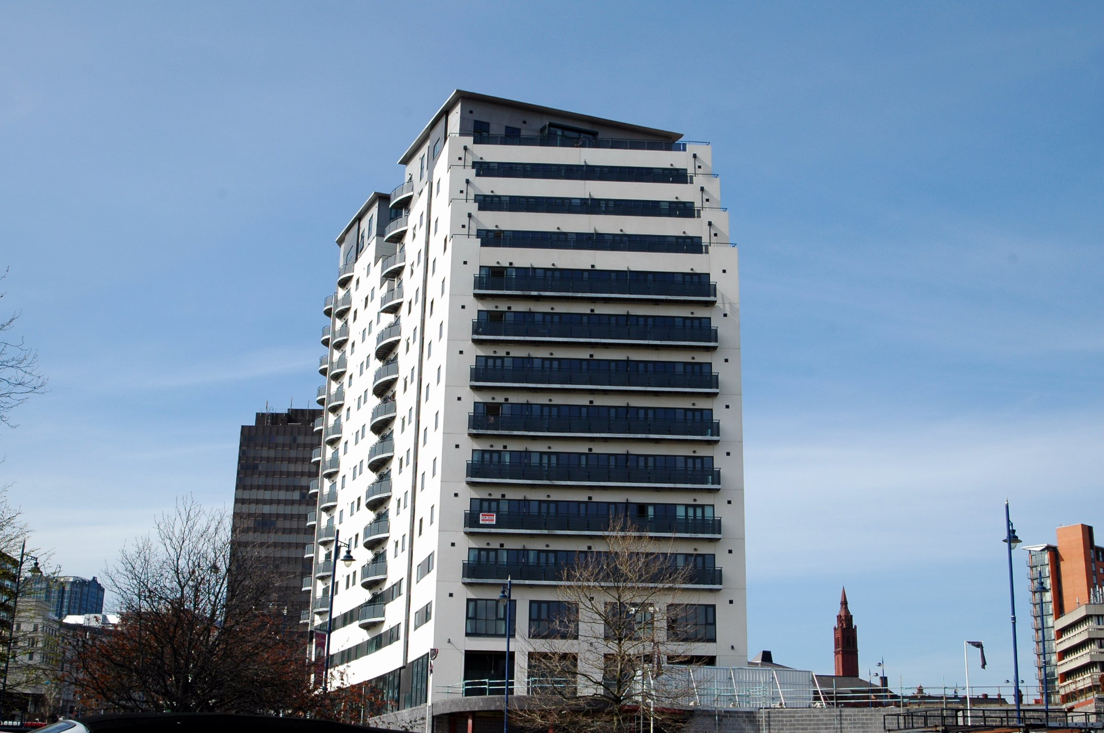 This is the only constructed building of the Masshouse development as viewed from the Eastside in Birmingham, England.